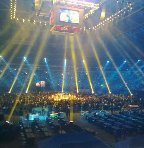 Vitali Klitschko fights in a footballstadium against Albert Sosnowski.